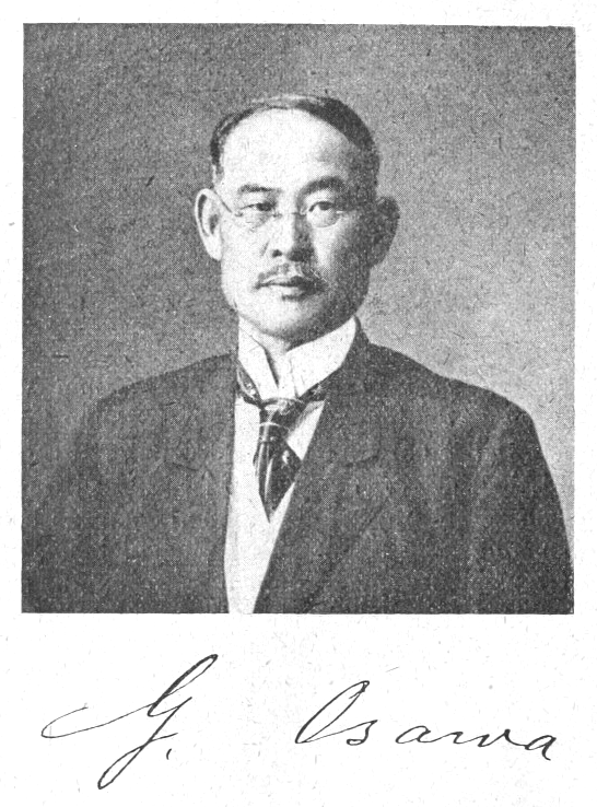 Gakutaro Osawa